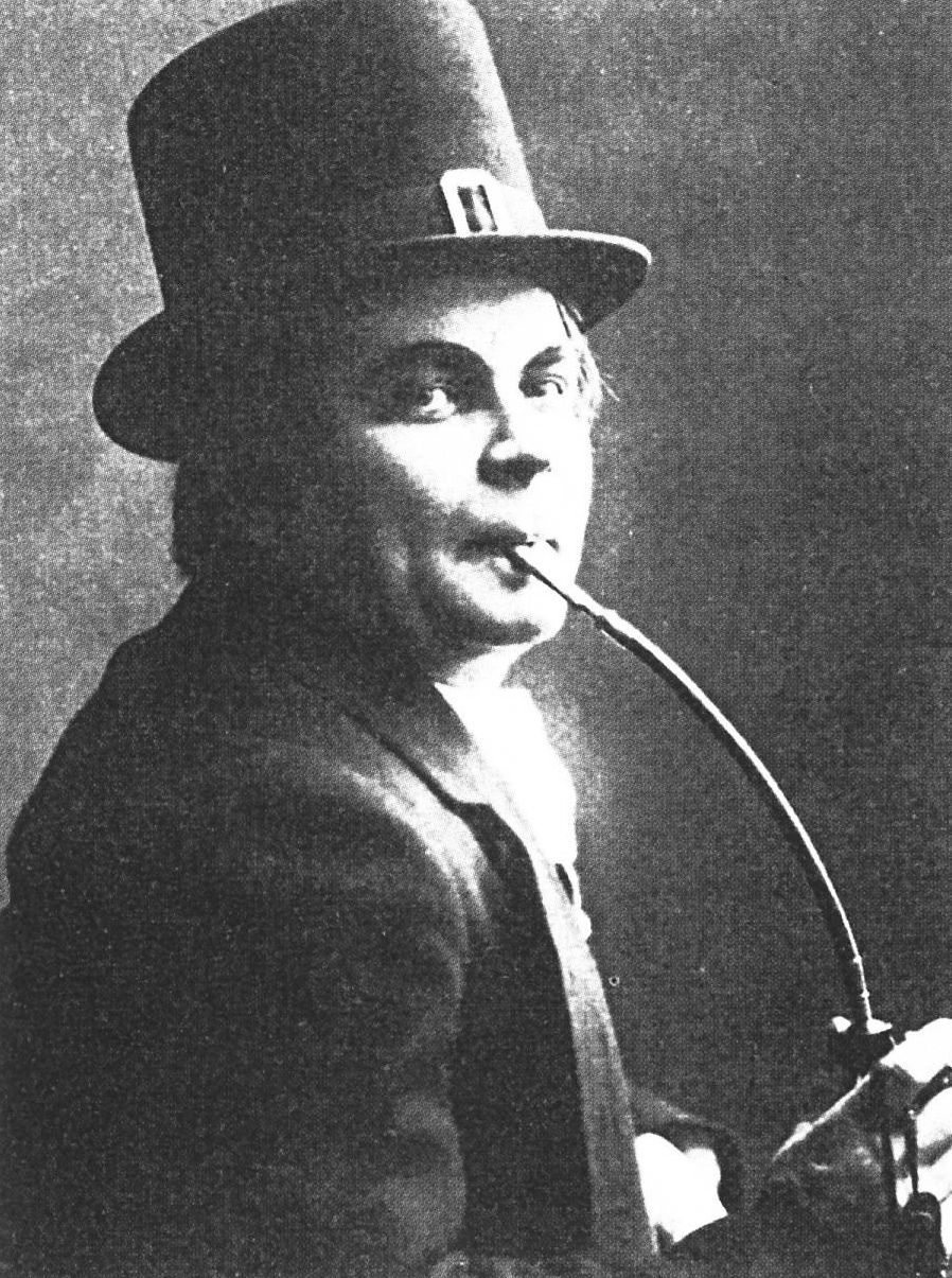 Iivari Kainulainen finish singer